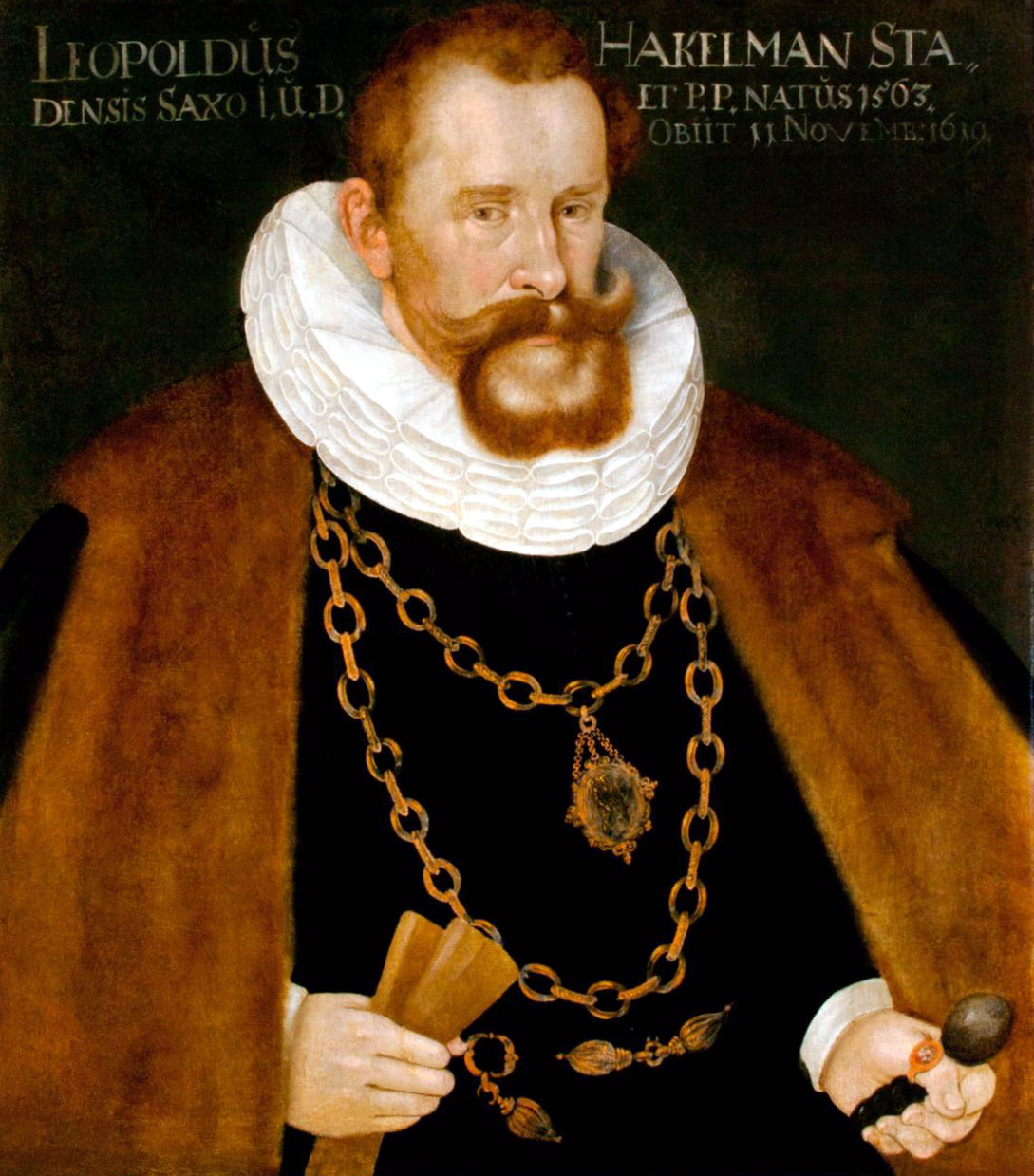 Leopold Hakelmann (1563-1619) Jurists from Germany